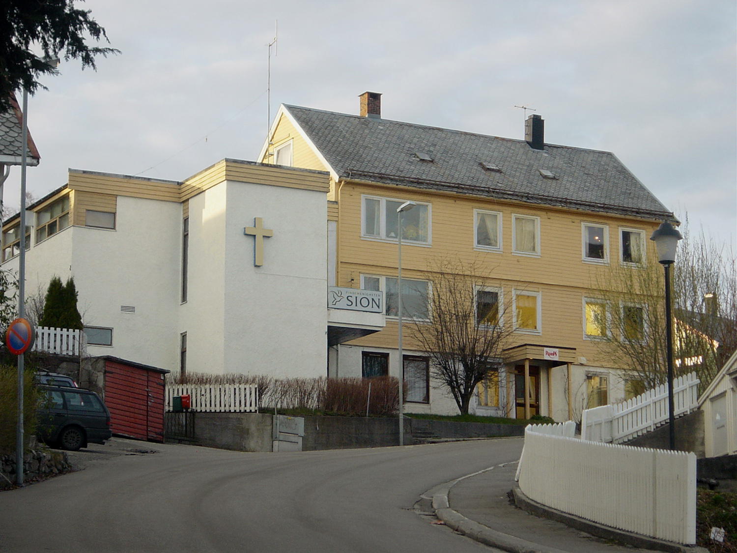 Molde and the Pentecostal churche Sion